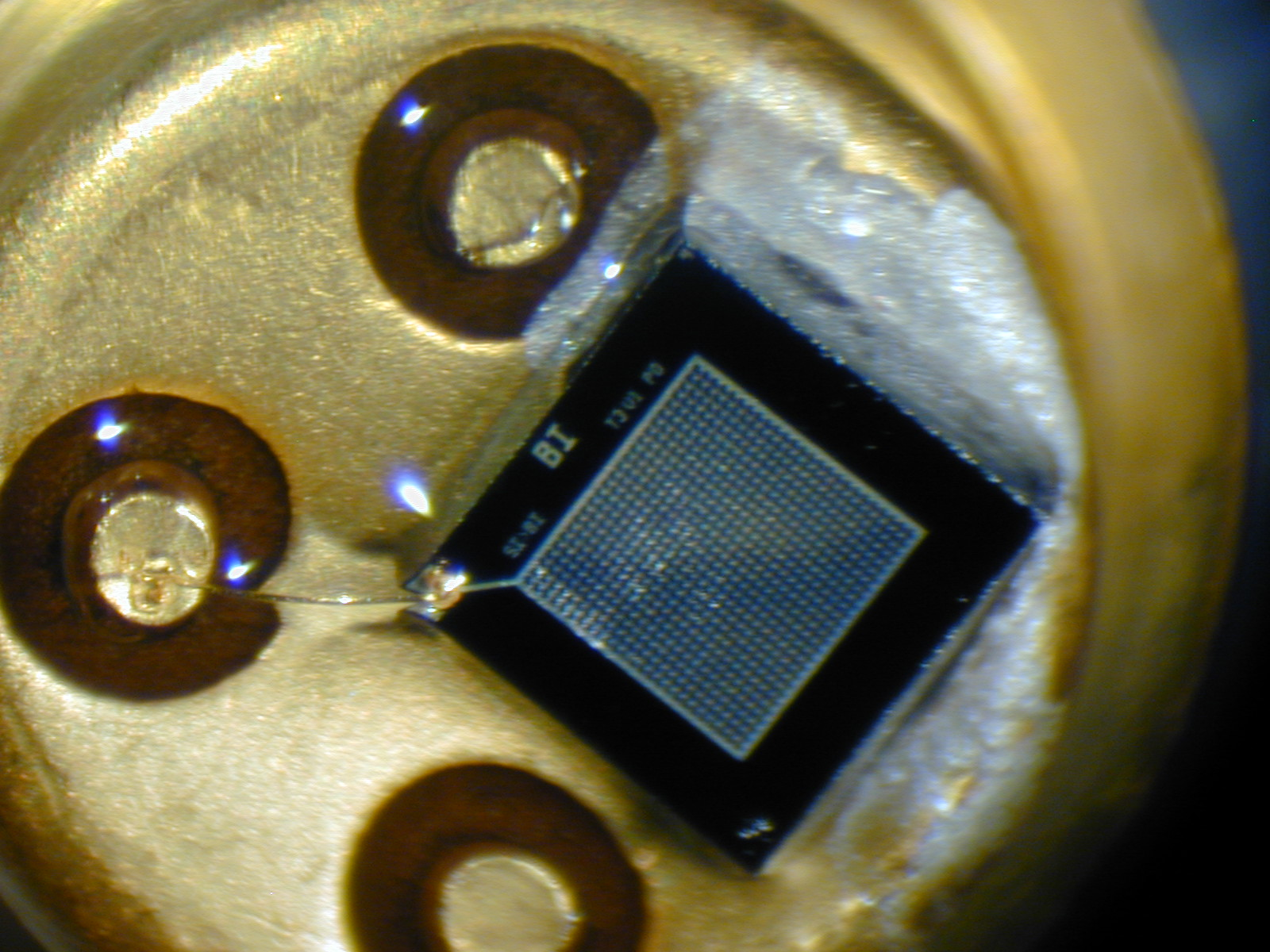 One of the first Silicon Photomultipliers (SiPM) produced by IRST (Trento, Italy). Silicon photomultipliers, often called SiPM in literature, are semiconductor devices build from an avalanche photodiode (APD) matrix on common silicium substrate. --GLevi 21:16, 17 October 2006 (UTC)